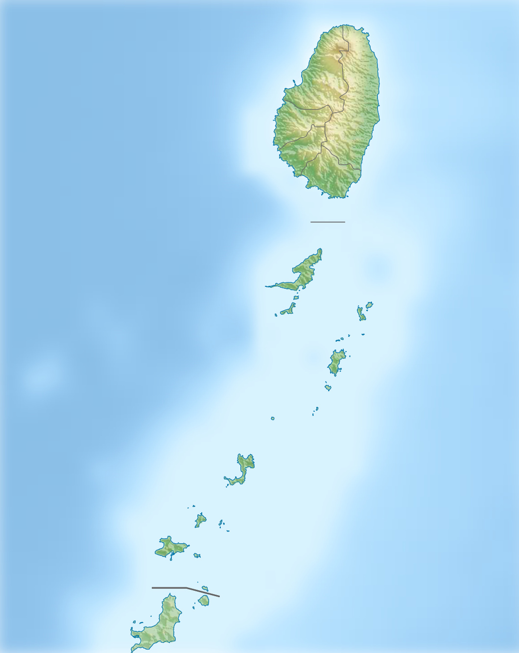 Location map of Saint Vincent und the Grenadines Geographic limits of the map: N: 13.42° N S: 12.44° N W: 61.7° W E: 60.9° W